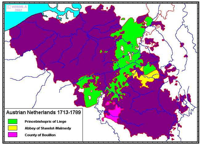 Maps of the Austrian Netherlands, bisected by the Prince-Bishopric of Liege